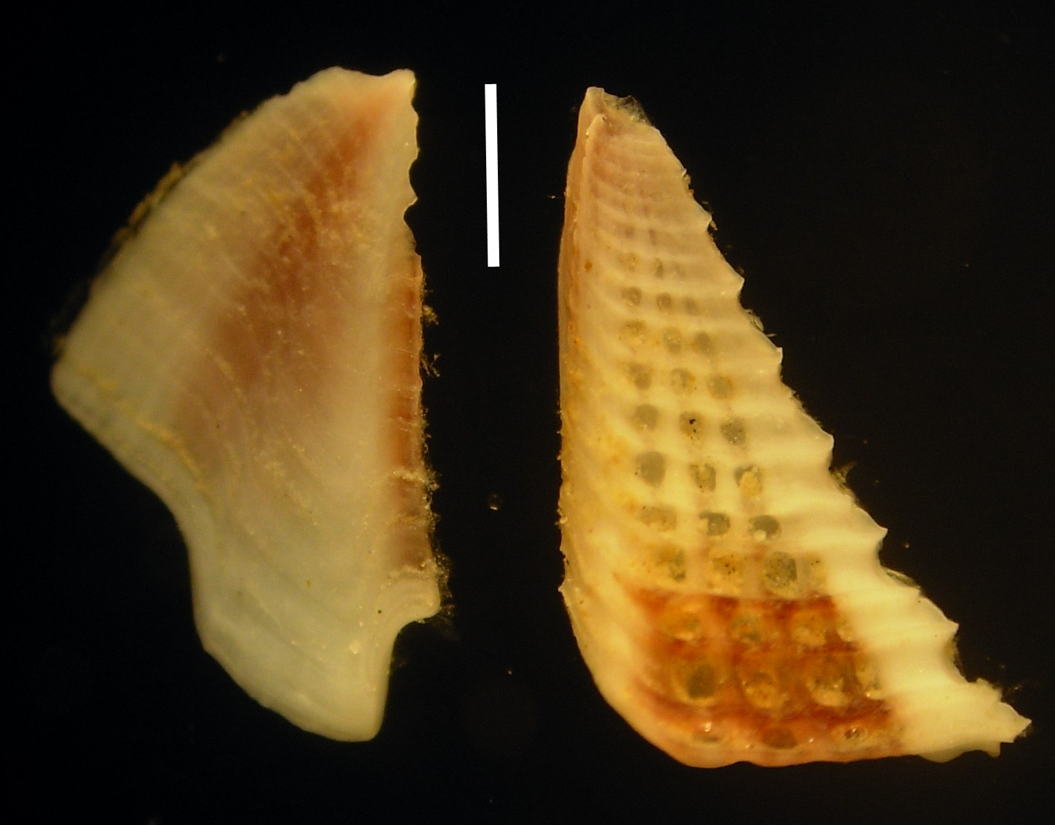 Balanus trigonus.Tergum (left) and scutum (right), external view.